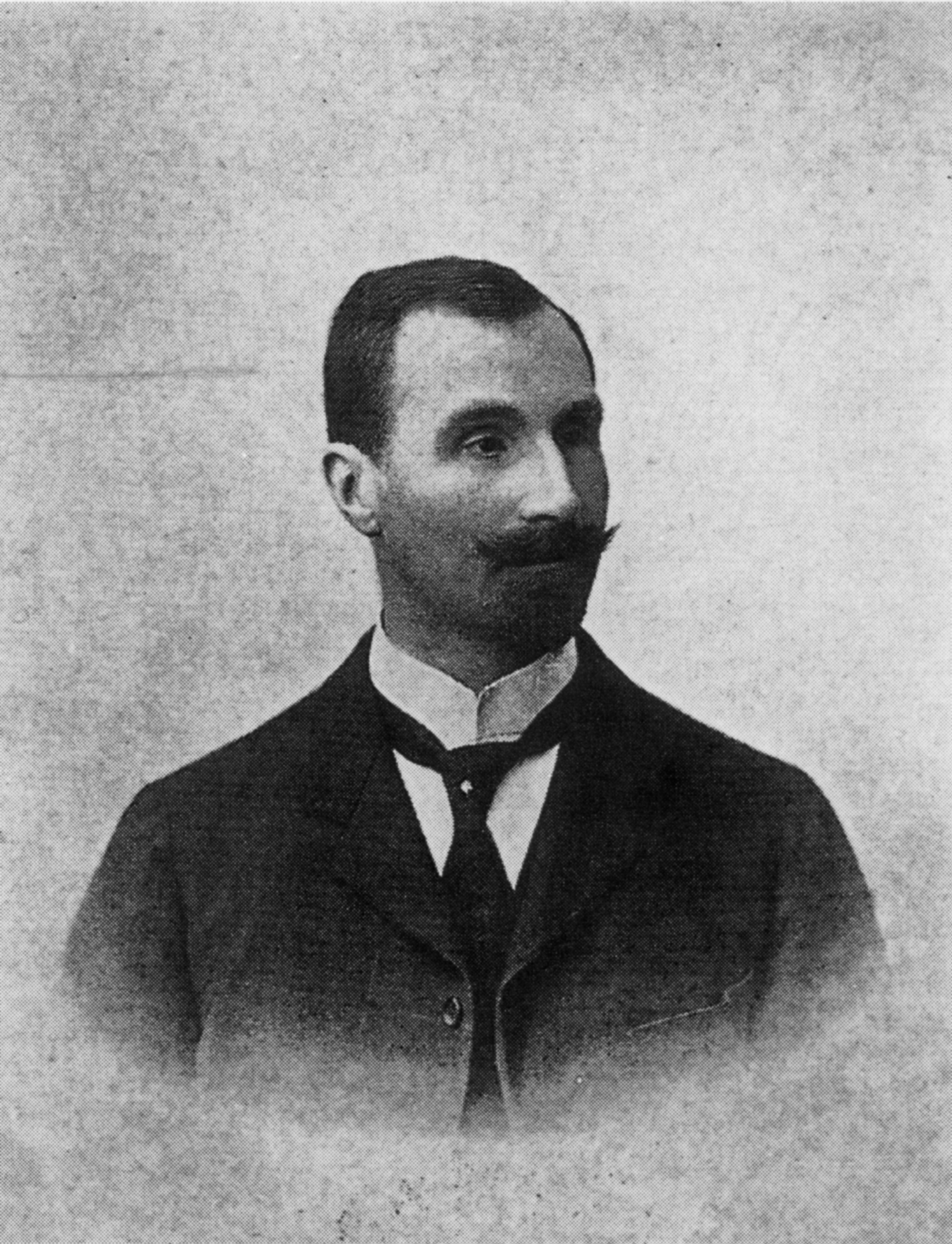 Franz Joseph von Bülow, one of the founders of the Scientific-Humantarian Committee.